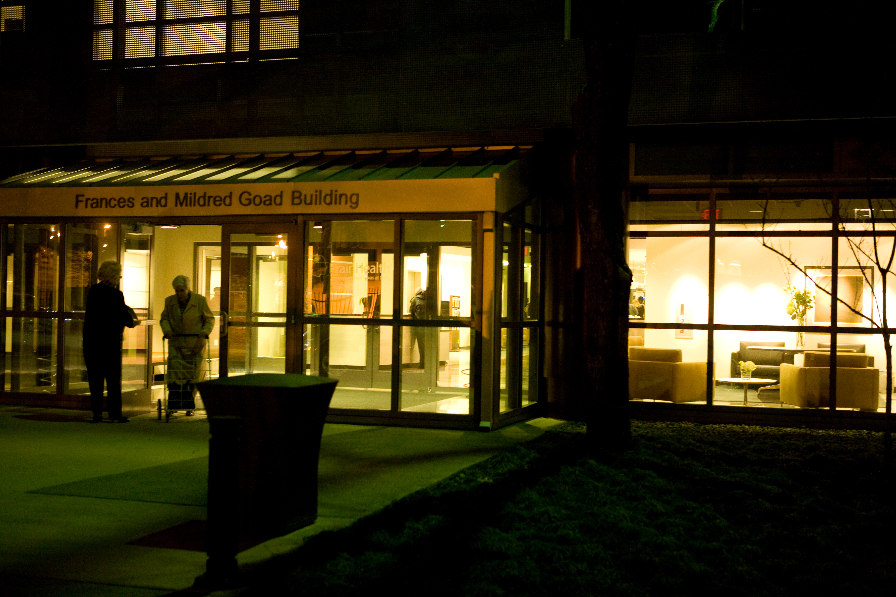 Entrance of the Frances and Mildred Goad Building